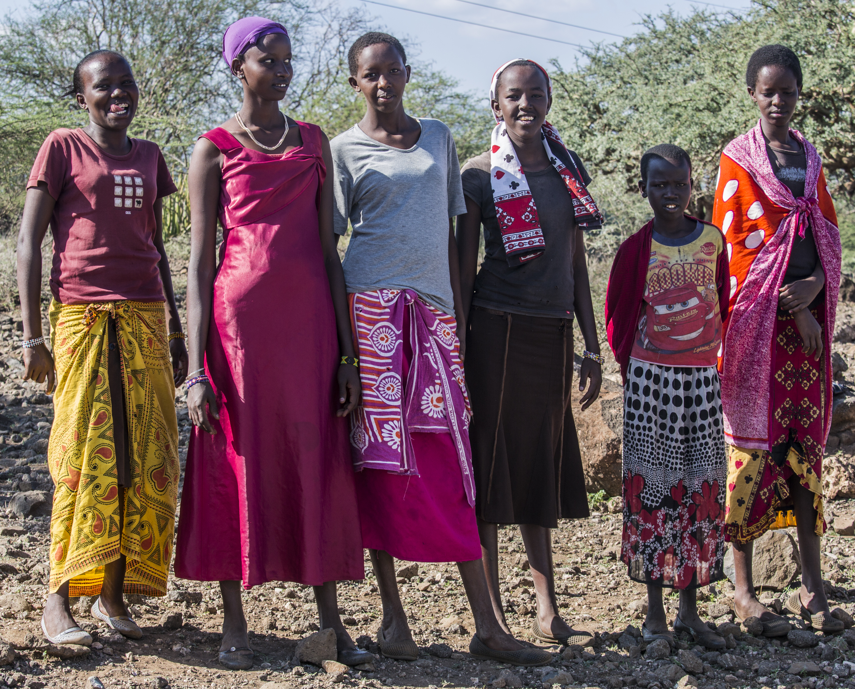 Maasai women in Kenya, Magadi road